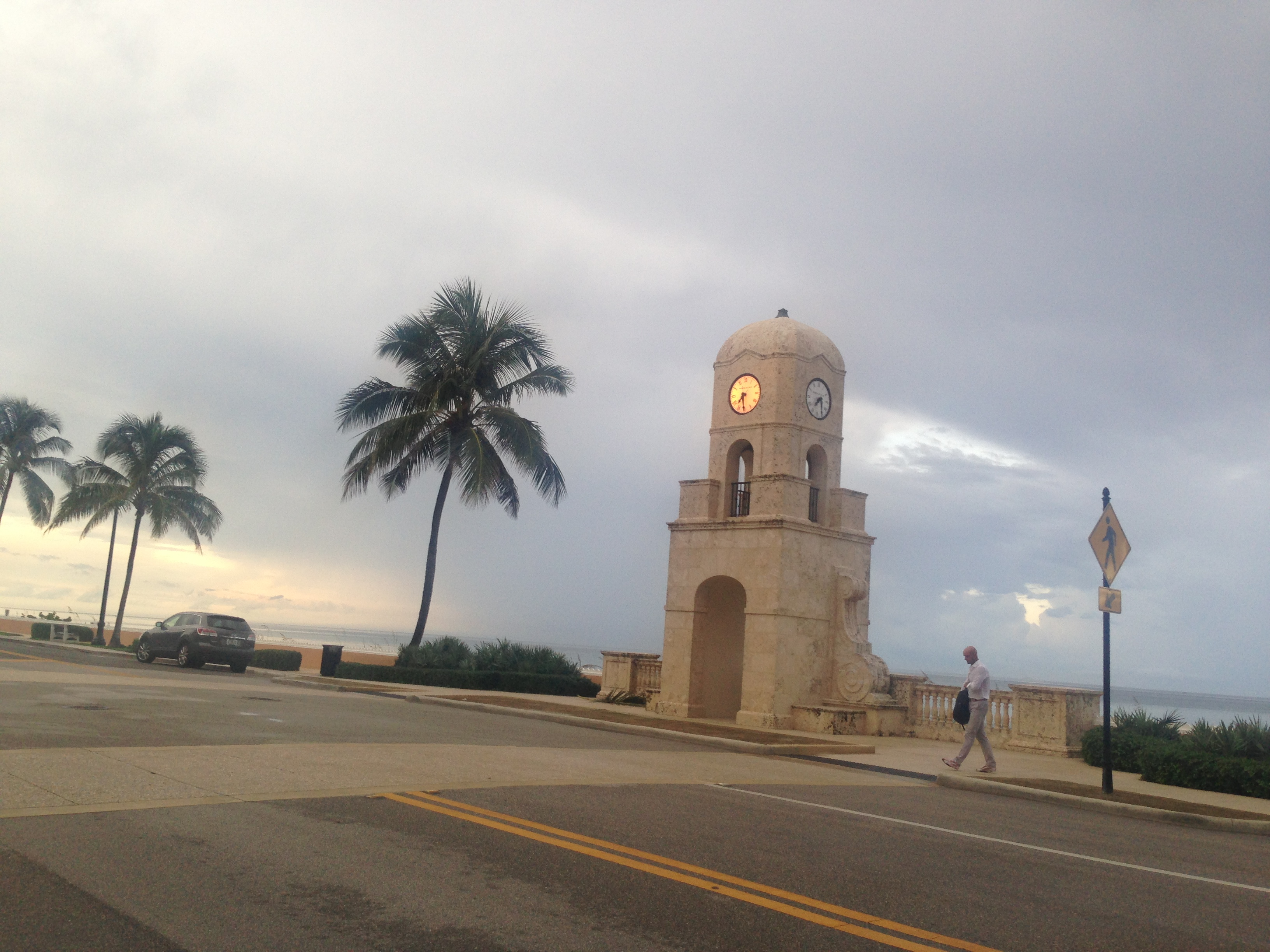 Clock Tower, Worth Avenue, Palm Beach, Florida